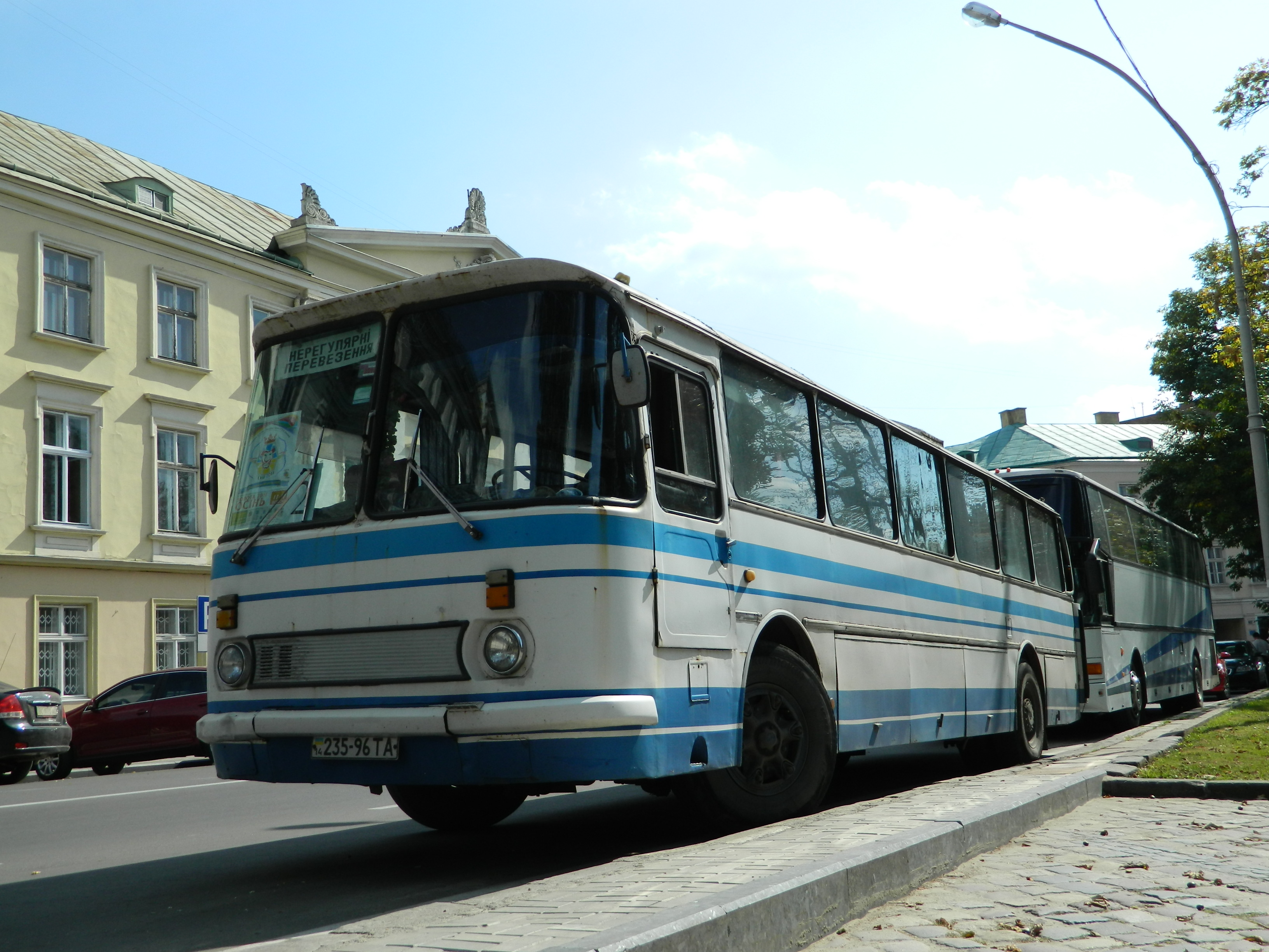 LAZ-699R bus from Lviv region.